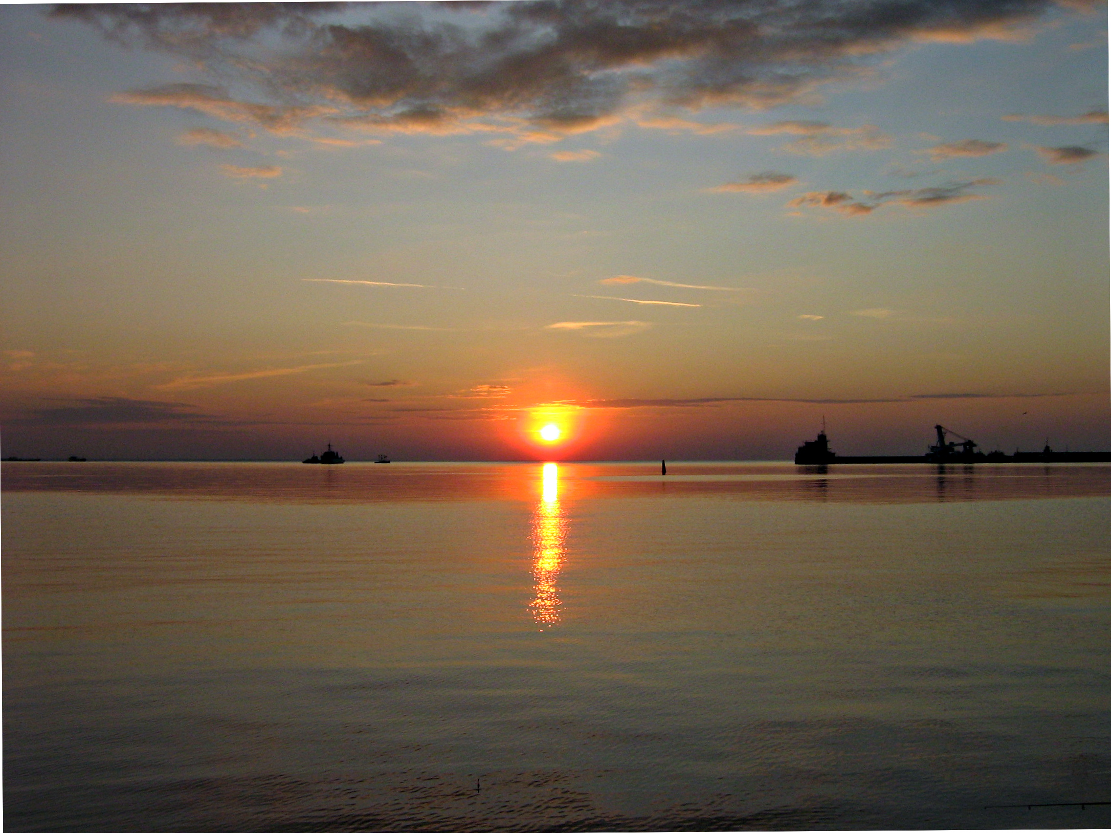 Sunrise in Theodosia. Crimea. Ukraine. Summer.